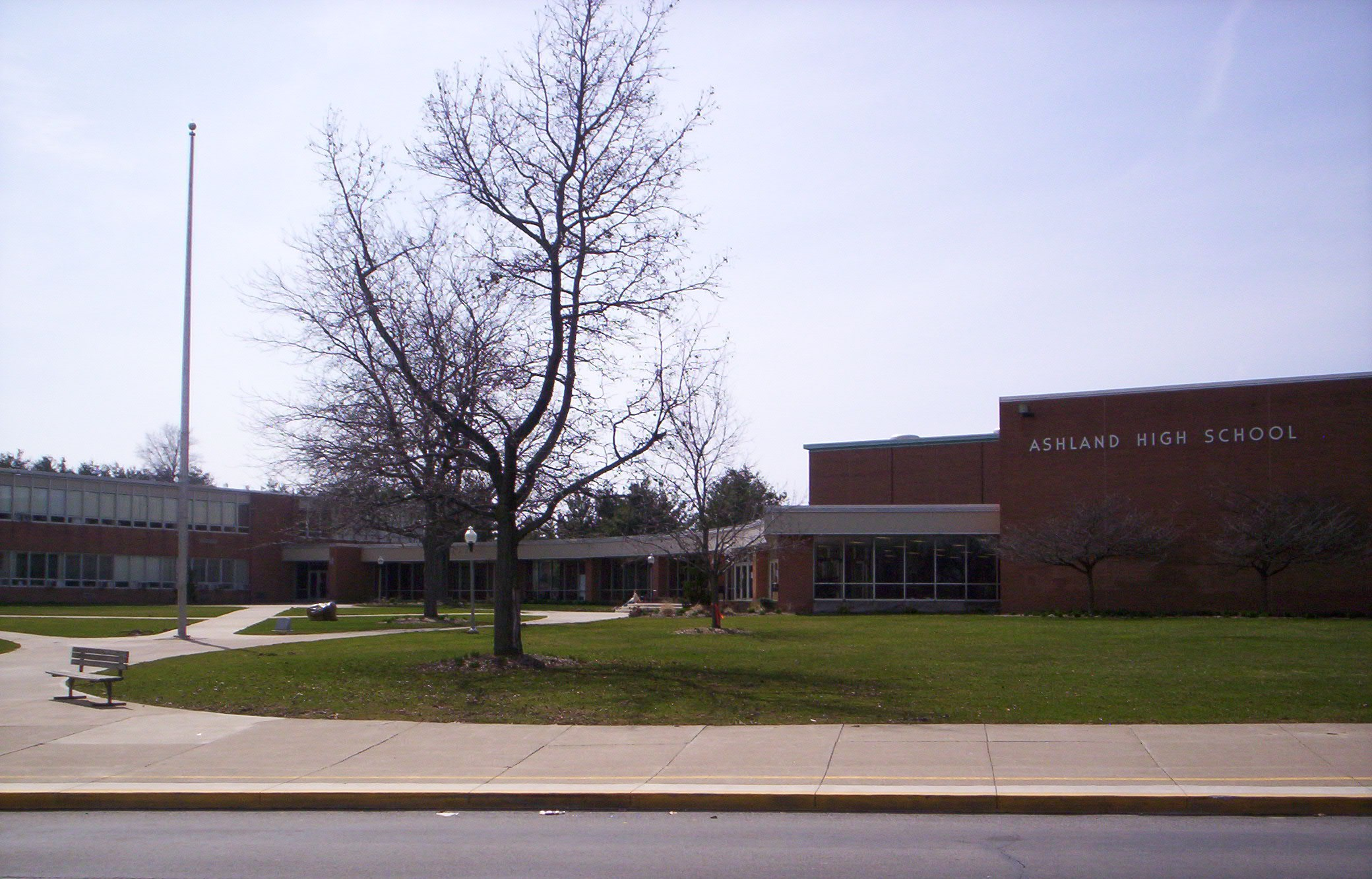 A view of Ashland High School in Ashland, Ohio.